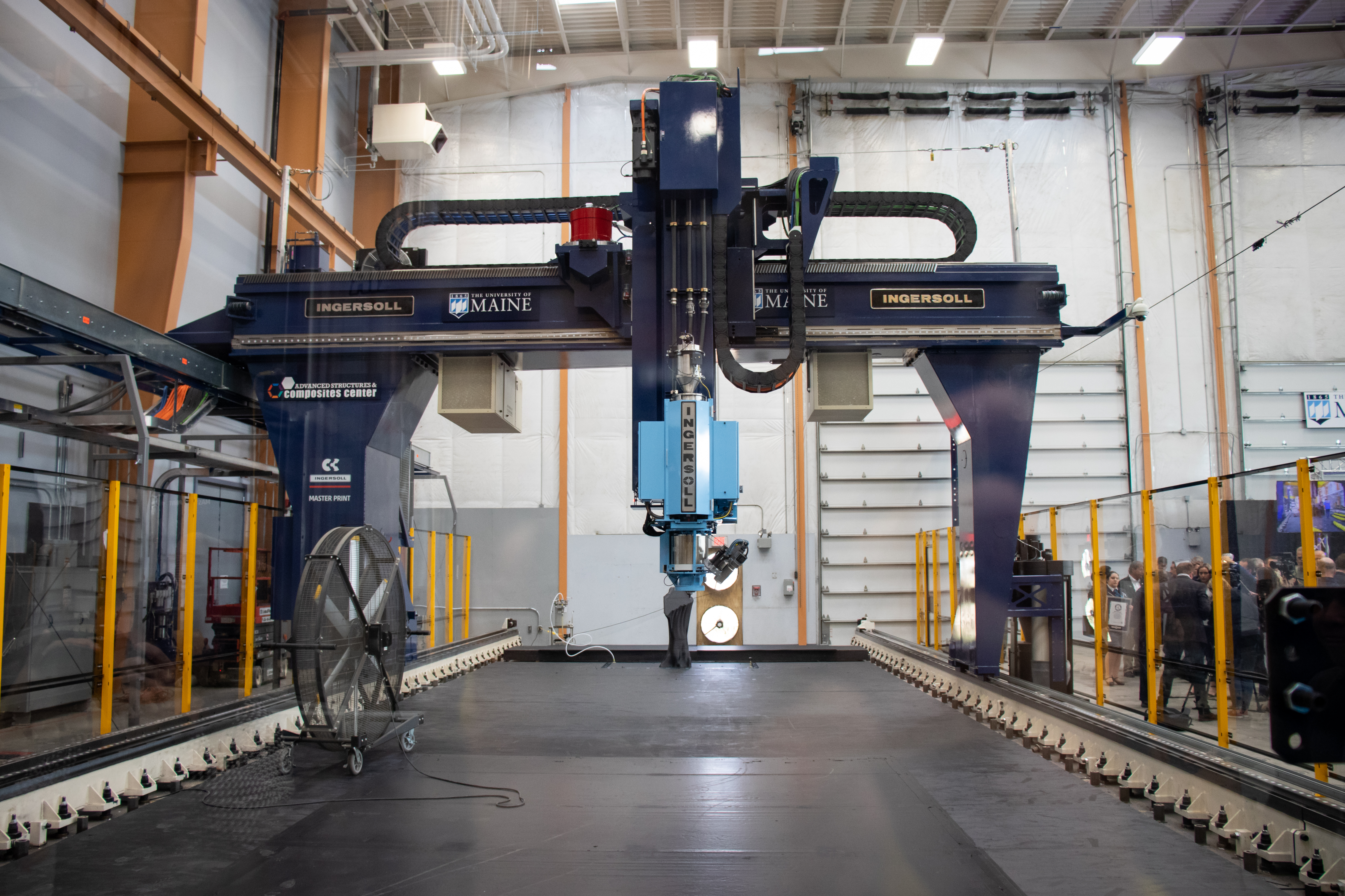 On October 10, 2019 the University of Maine Advanced Structures and Composites Center unveiled the world's largest 3D printer.